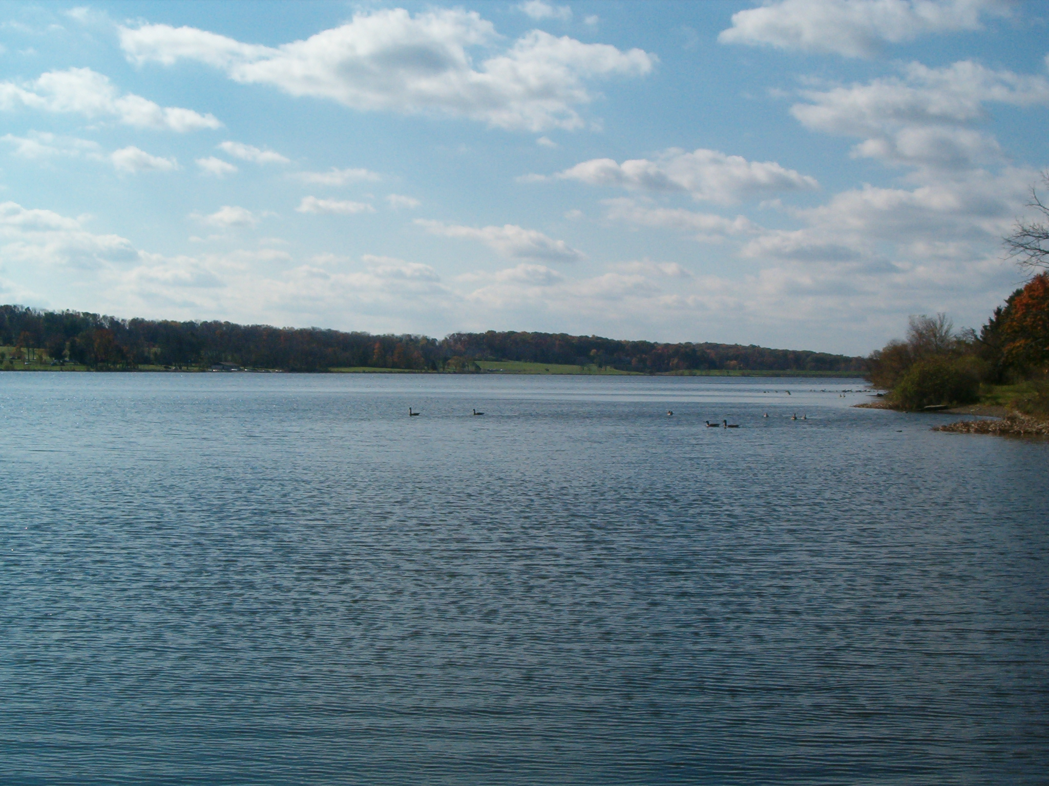 A fall 2006 photo of Lake Galena, Bucks County